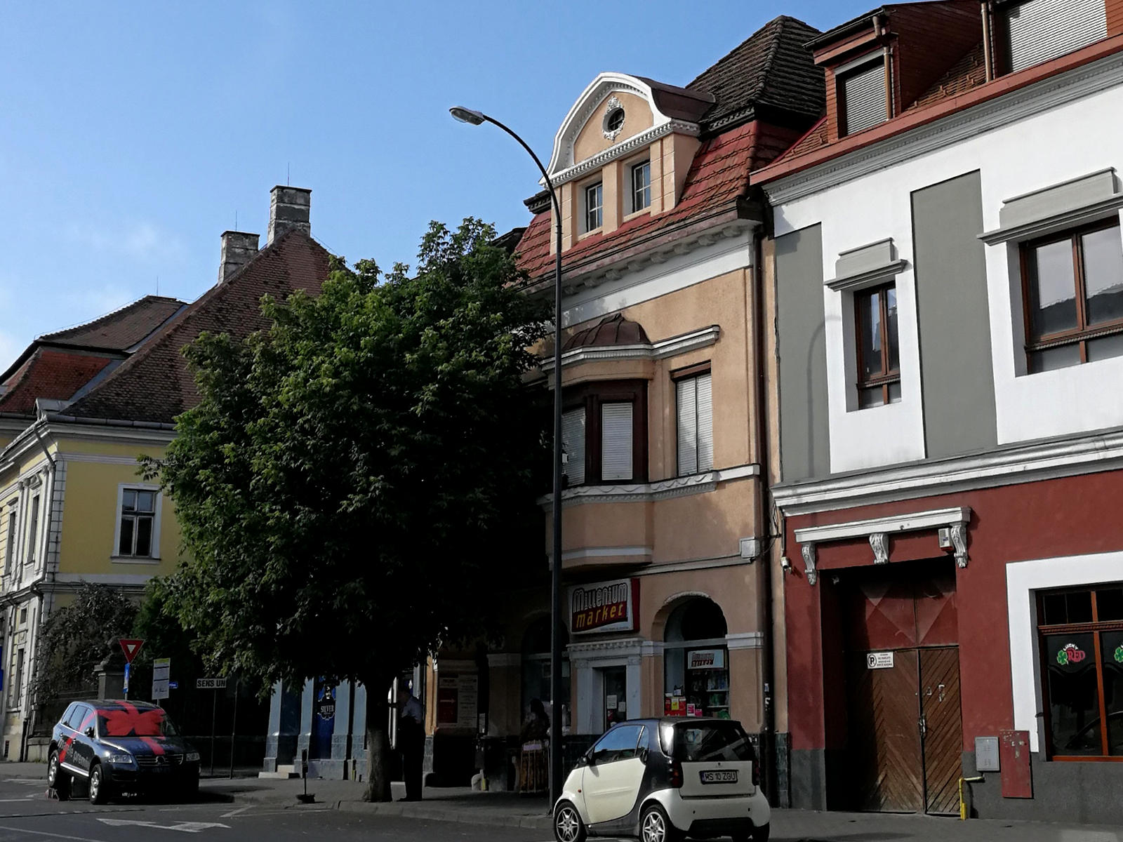 Bolyai Farkas street, house number 28